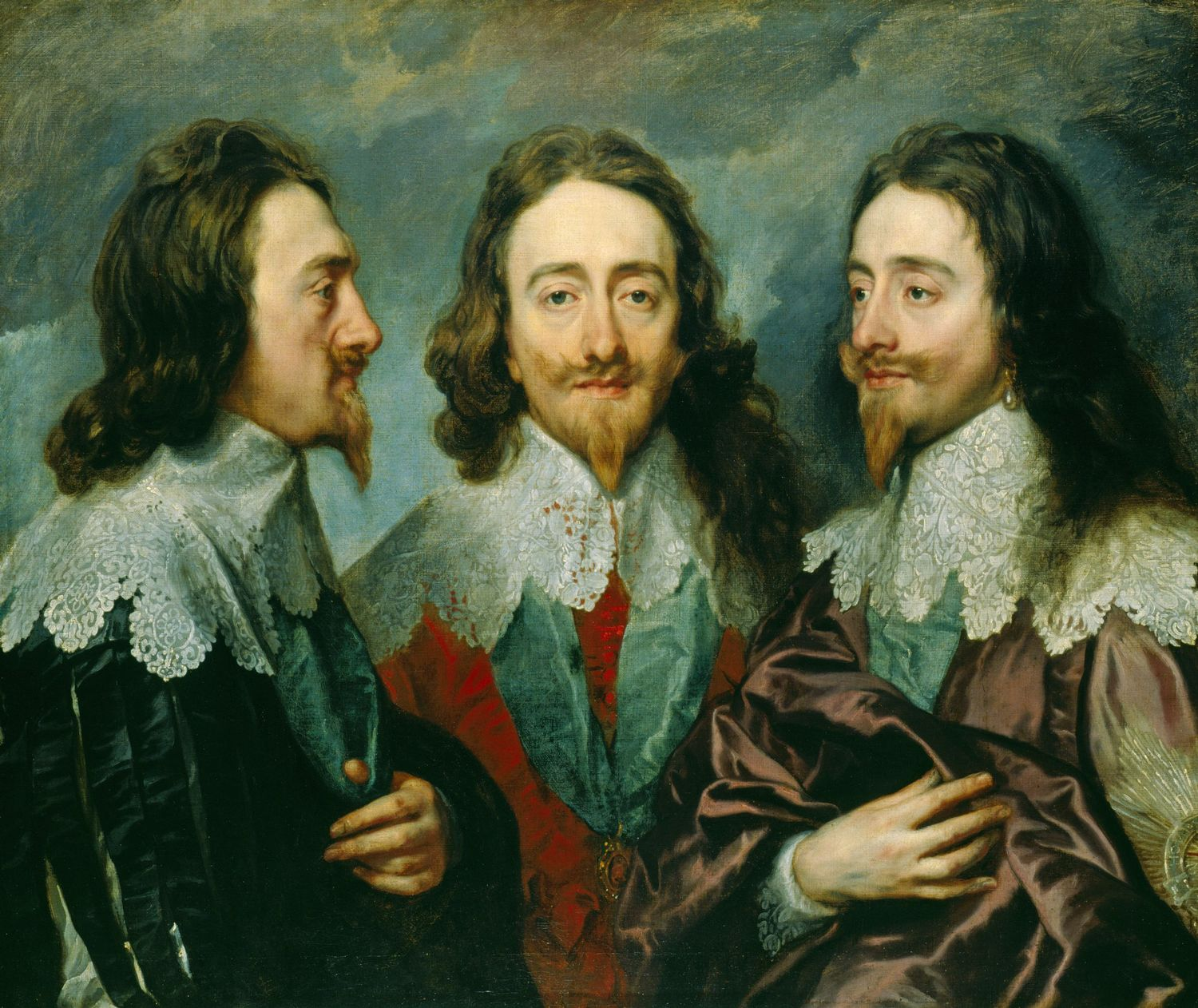 Anthony van Dyck, Charles I's court painter, created this portrait of Charles I, King of England, from Three Angles, commonly known as the "Triple Portrait. The oil painting was made on canvas around 1636, and is an example of how Van Dyck tended to mask Charles I's small stature, portraying him in a more dignified manner. It was sent to Rome, where sculptor Gian Lorenzo Bernini, commissioned by Pope Urban VII, used it to made a marble bust of Charles. The bust may have originally been place in the hall of the Queen's House, and was later lost in the Whitehall Palace fire of 1698.